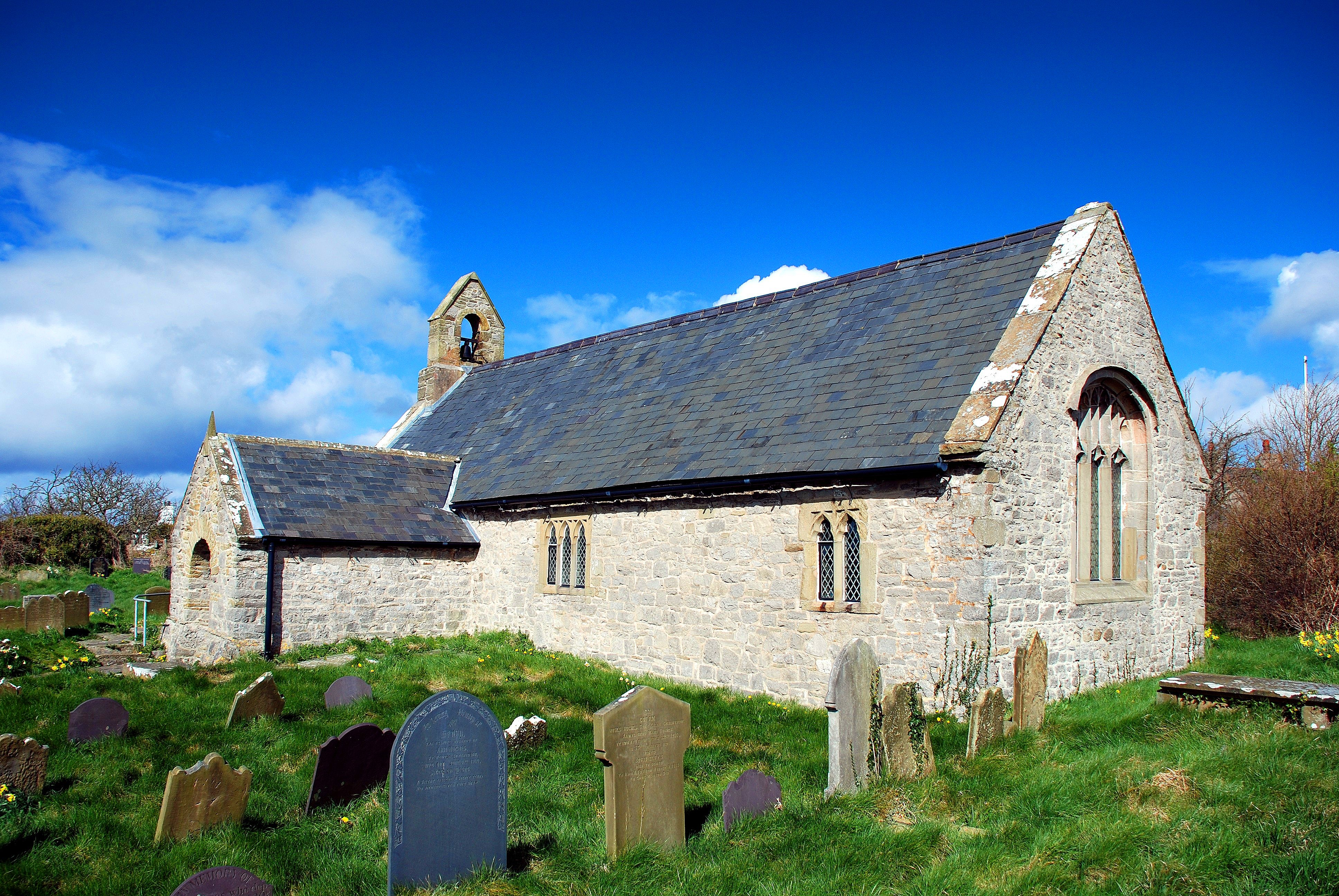 Church Of St Mary Wikidata has entry Q17743422 with data related to this item.